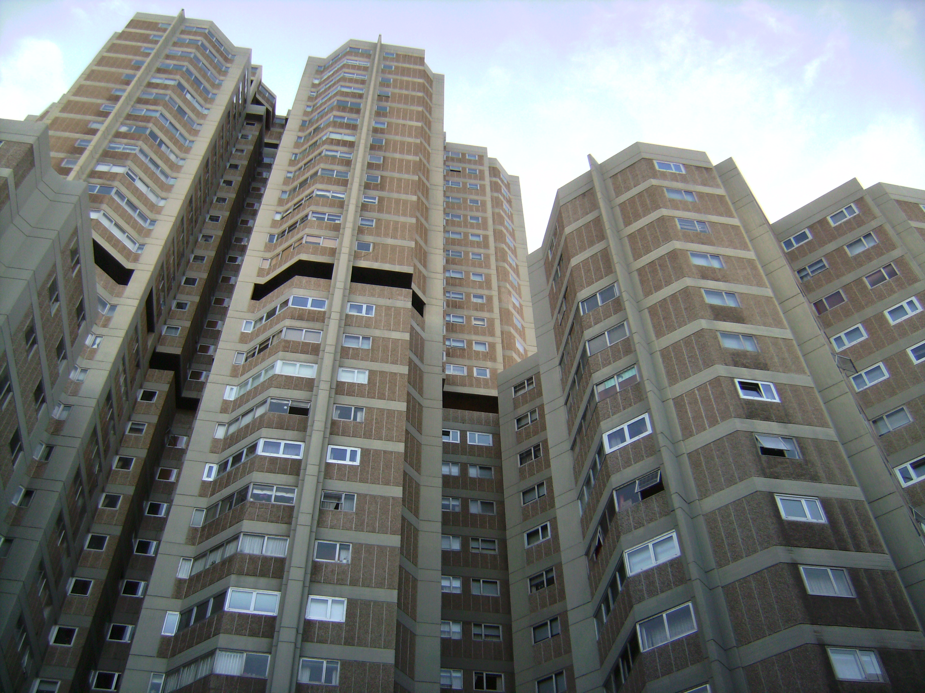 "Trébol" Building in Corunna, designed by architect Carlos Meijide.